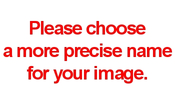 Please use a more precise name for your image.